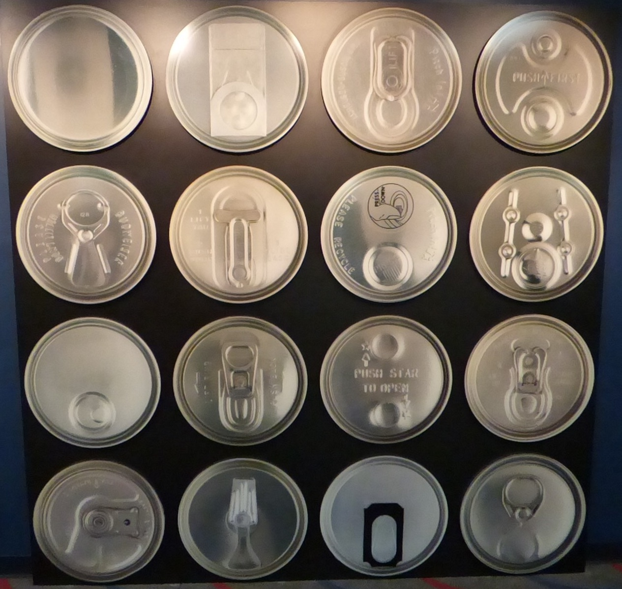 beer can evolution display, Budweiser Brewery, Fort Collins, Colorado / 2014